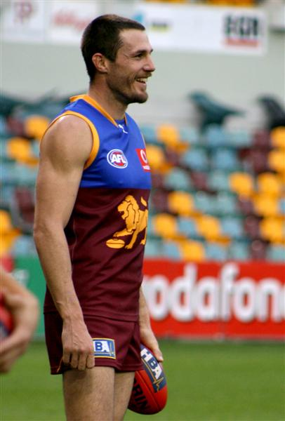 Robert Copeland at a Brisbane Lions public training session in 2008.